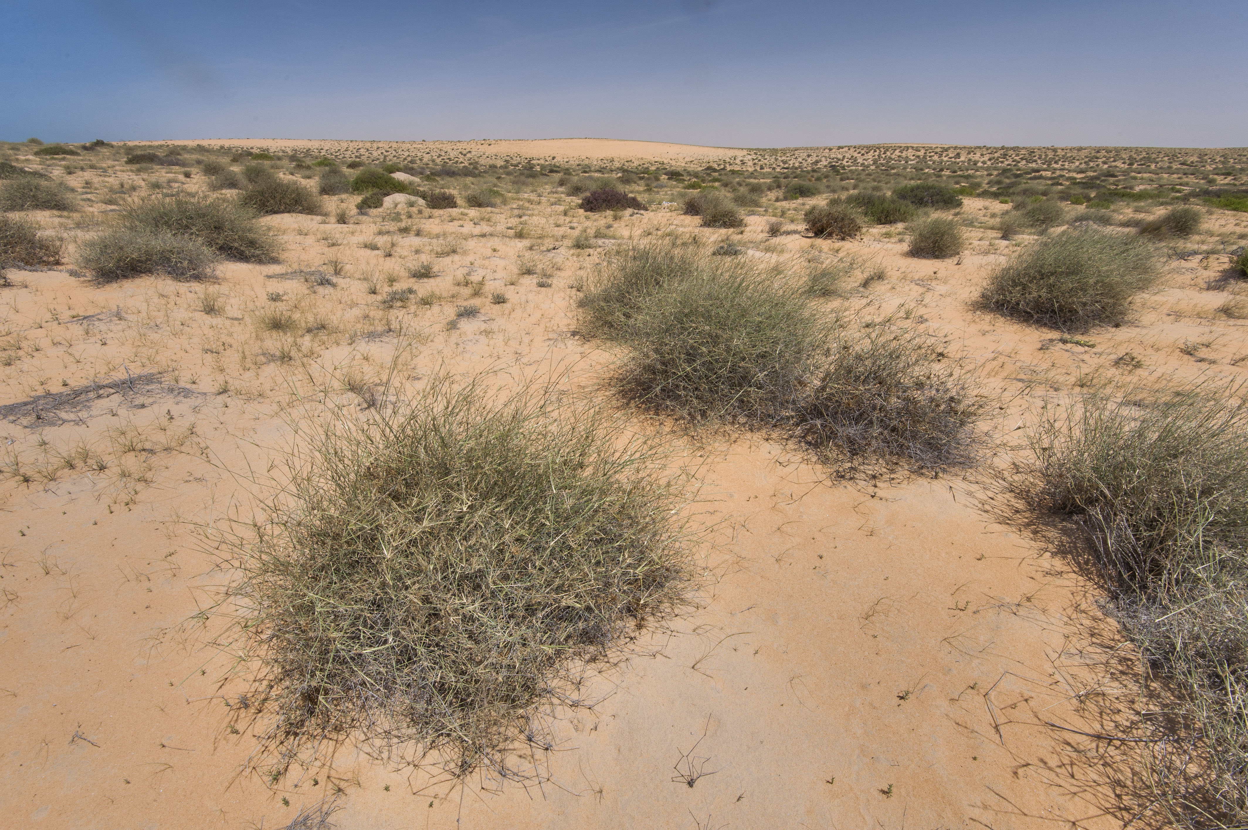 Panicum turgidum growing in Al Maszhabiya reserve, close to Abu Samra, southern Qatar.